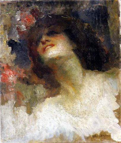 portrait